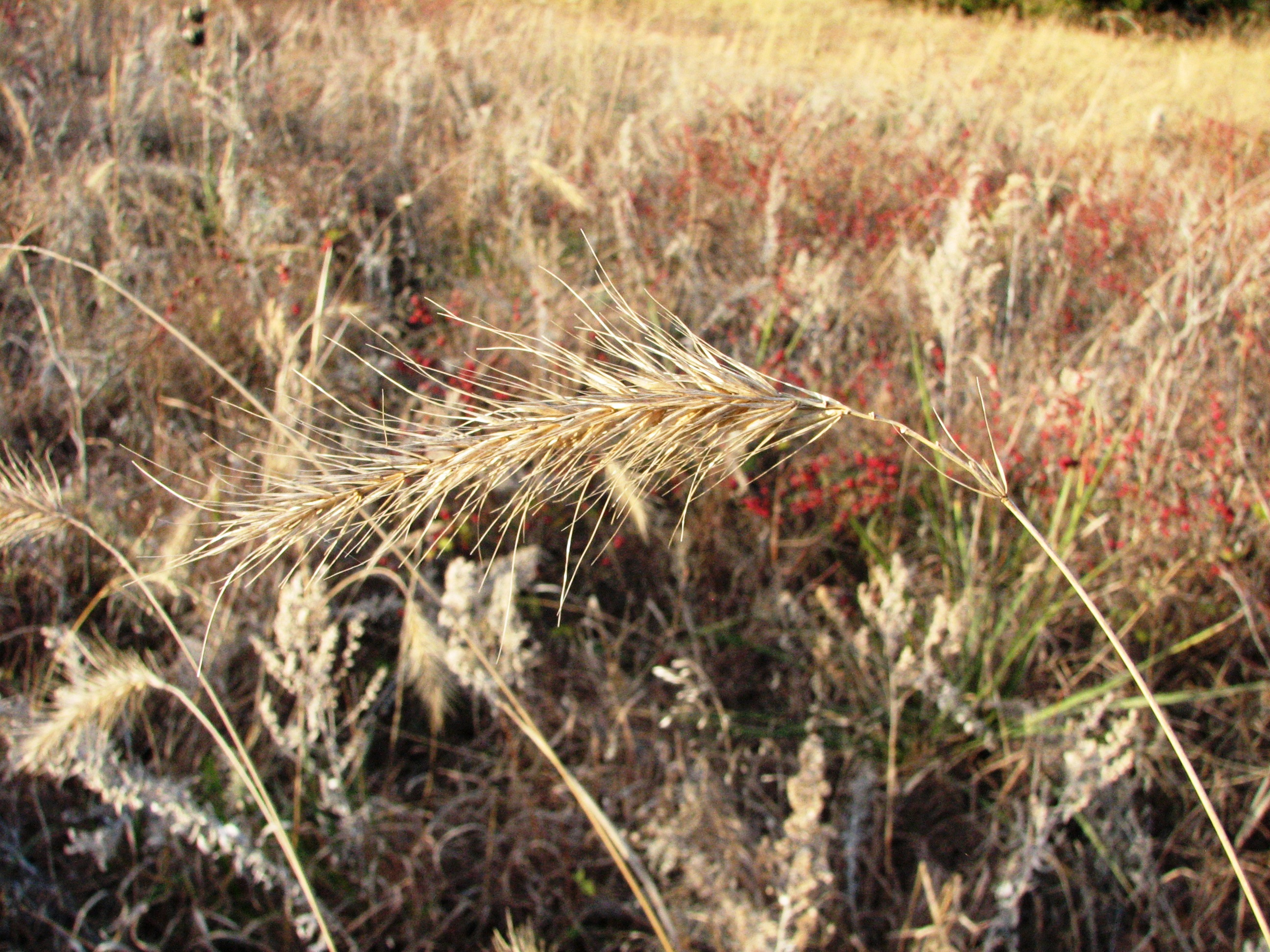 Head of canada wildrye with prairie in background